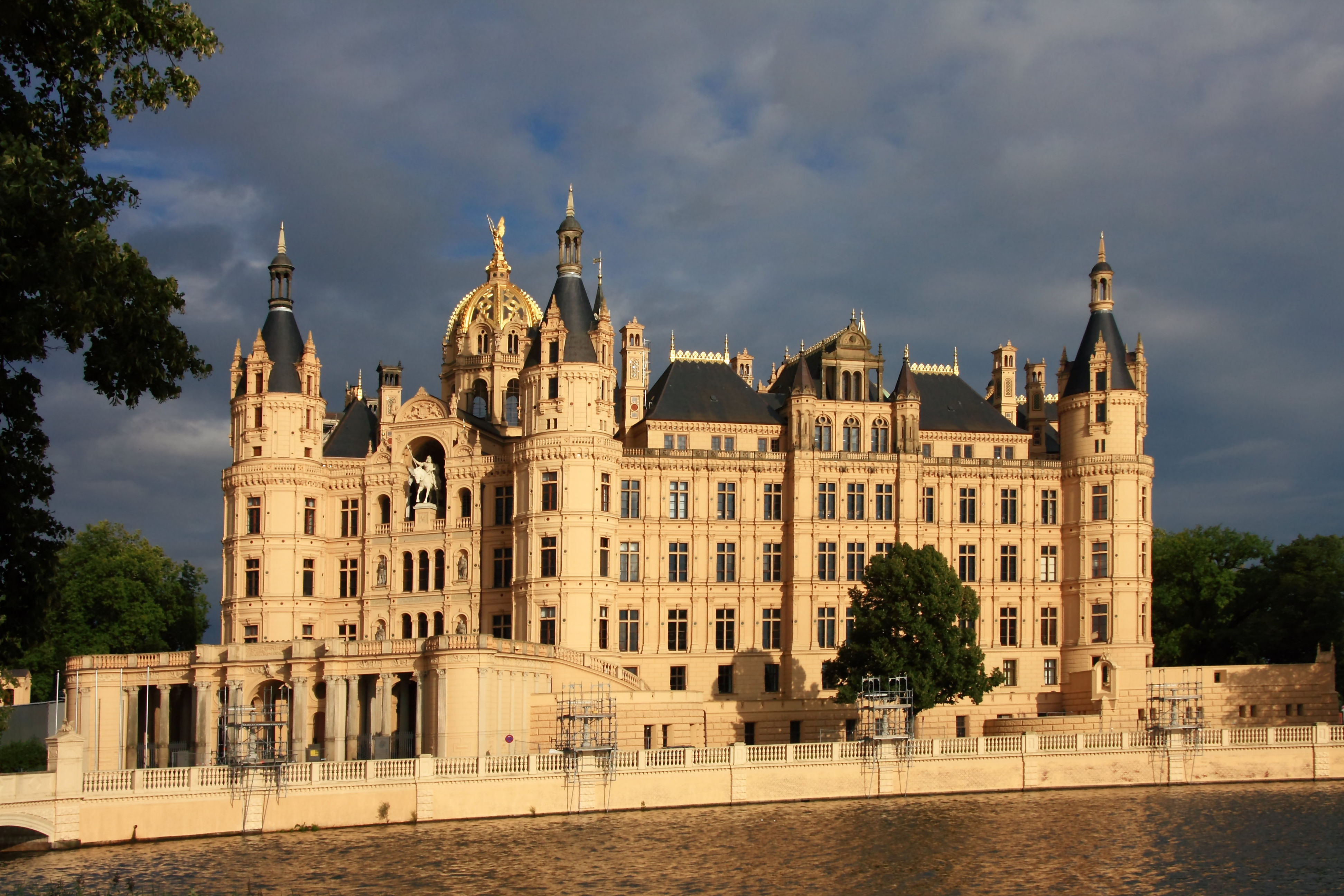 View at the castle of Schwerin.